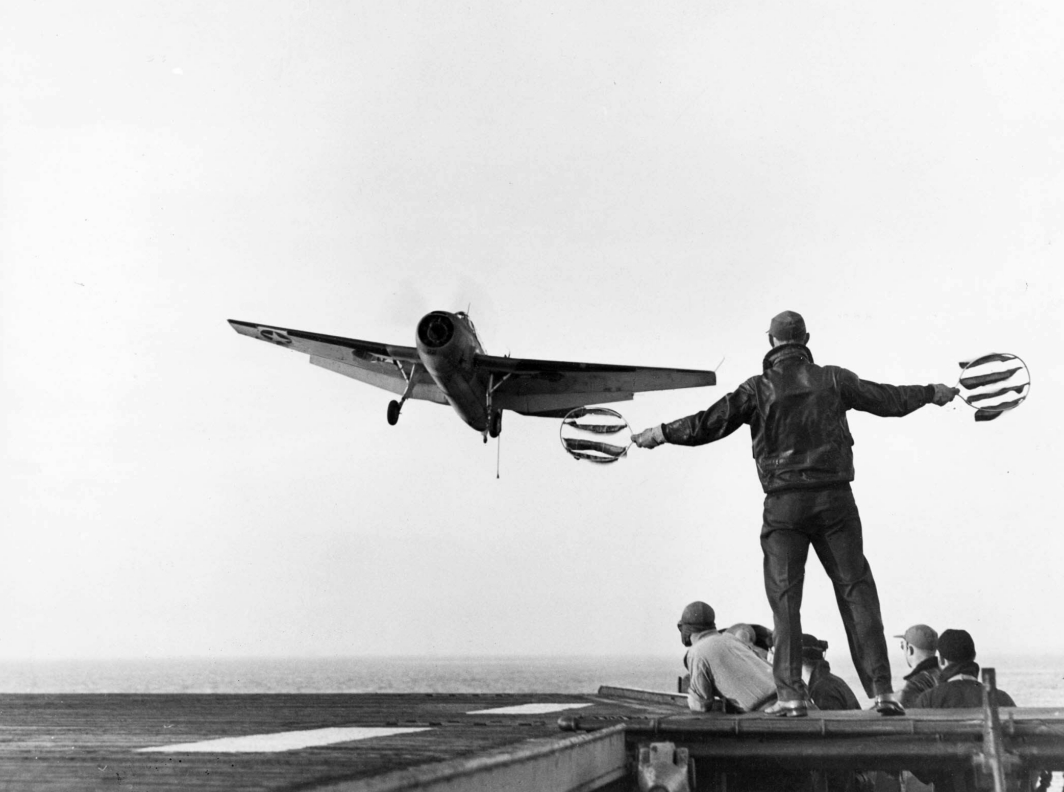 A U.S. Navy Landing Signal Officer on board USS Card (ACV-11) guides a Grumman TBF-1 Avenger of Composite Squadron 1 (VC-1) to recovery on board the ship. In 1943 the Navy combined the former VGS (Escort-Scouting Squadron) and VGF (Escort-Fighting Squadron) into one. These VC (Composite Squadrons) consisted most often of Avengers and F4F/FM Wildcat fighters and operated from escort carriers in both the Atlantic and Pacific. VC-1 operated from USS Card and USS Block Island (CVE-21), sinking five German U-boats.